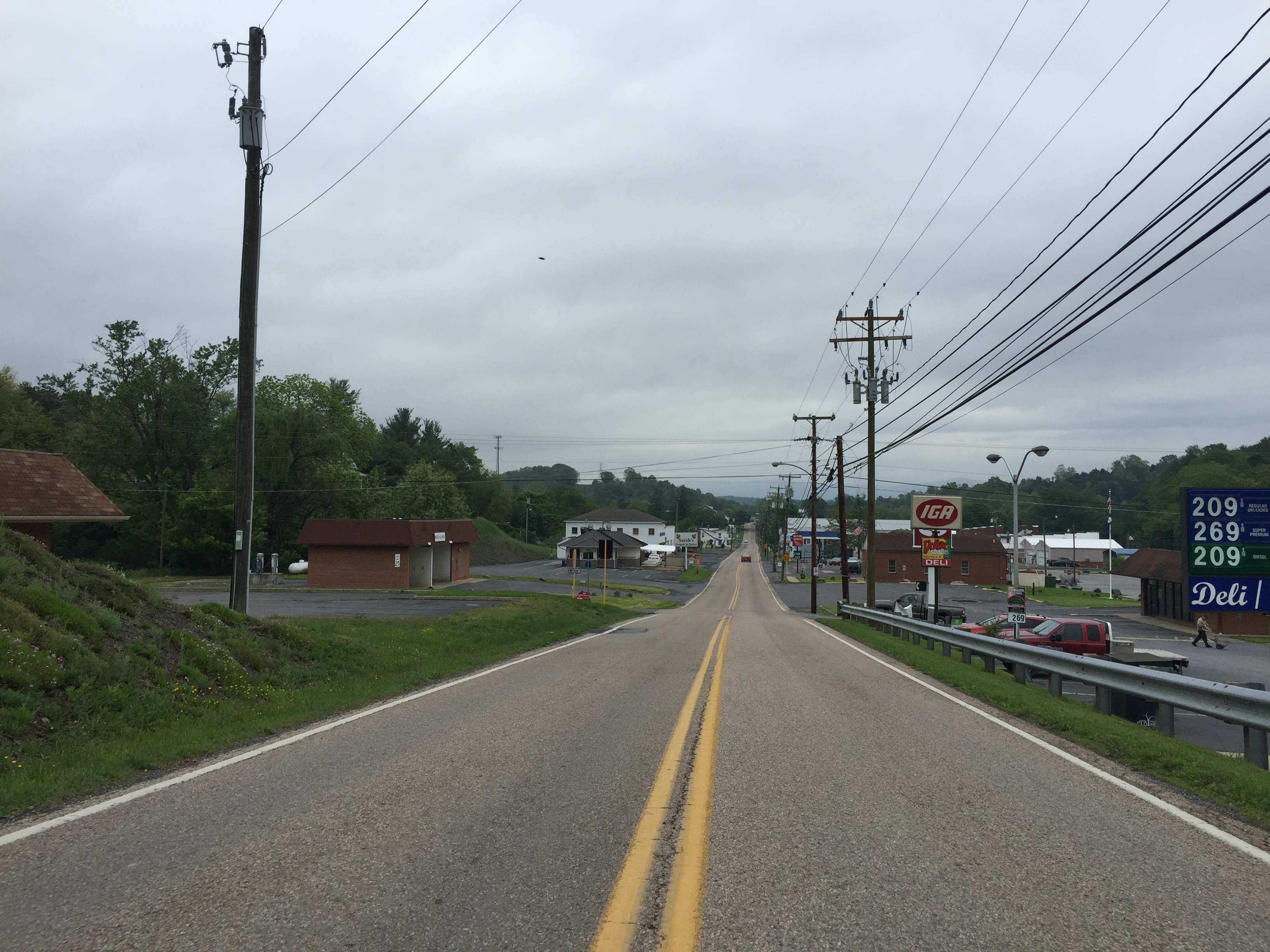 View north along Craig Street (Virginia State Route 42) near Cherry Street in Craigsville, Augusta County, Virginia